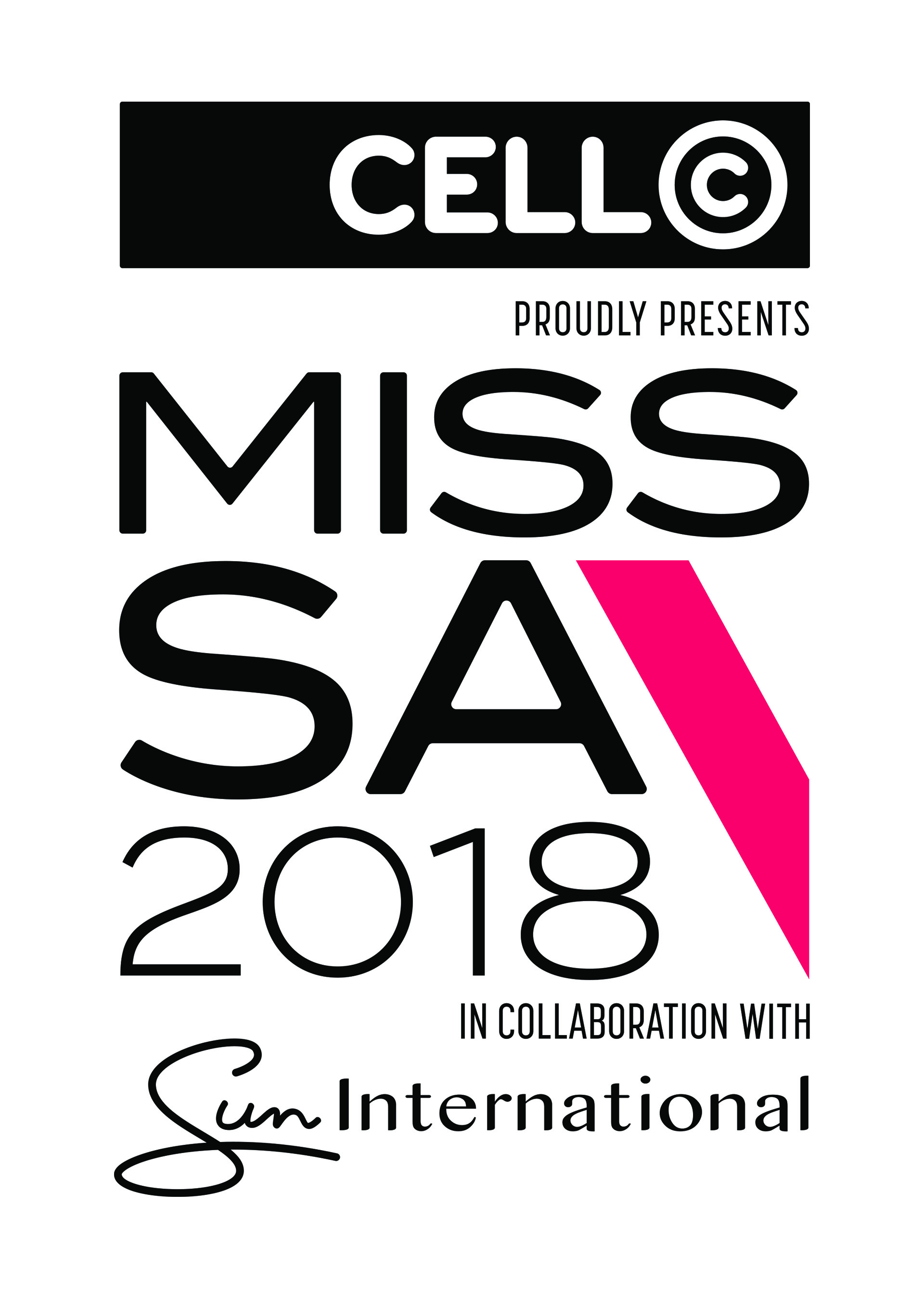 Miss South Africa Logo 2018